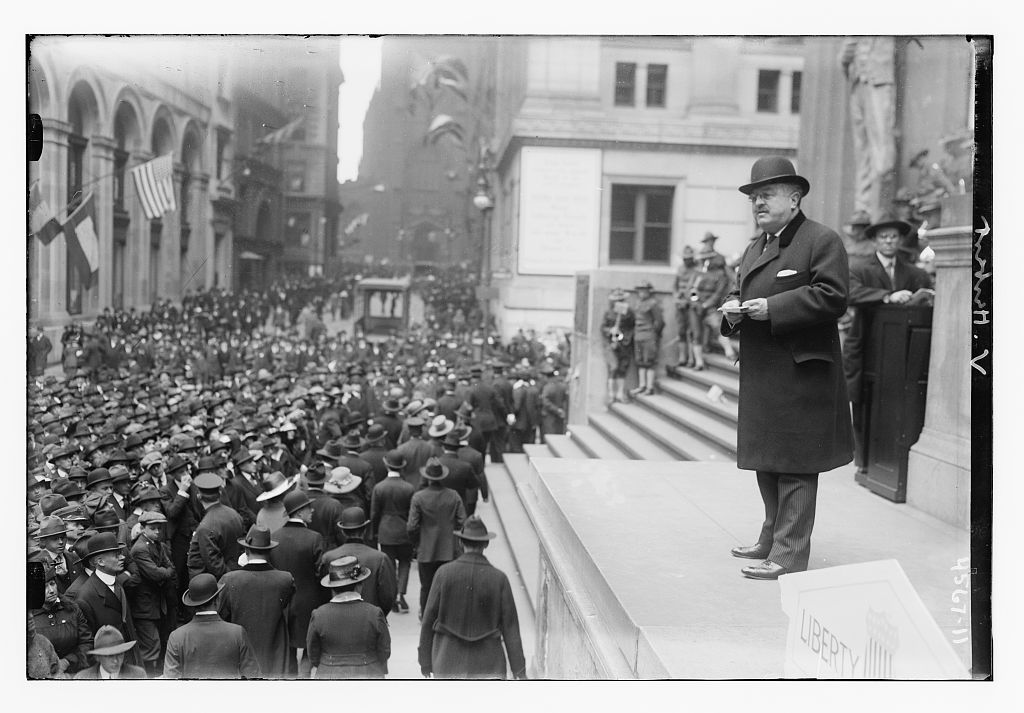 Bain News Service,, publisher. V. Herbert [between ca. 1915 and ca. 1920] 1 negative : glass ; 5 x 7 in. or smaller. Notes: Title from data provided by the Bain News Service on the negative. Photograph shows composer and cellist Victor August Herbert (1859-1924) standing outside in front of crowd. Herbert was one of the founders of the American Society of Composers, Authors, and Publishers (ASCAP). (Source: Flickr Commons project, 2015) Forms part of: George Grantham Bain Collection (Library of Congress). Format: Glass negatives. Repository: Library of Congress, Prints and Photographs Division, Washington, D.C. 20540 USA, General information about the Bain Collection is available at Higher resolution image is available (Persistent URL): Call Number: LC-B2- 4567-11